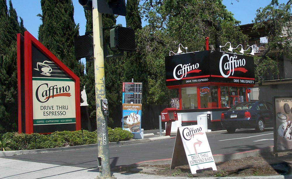 A drive-through espresso shop in Redwood City, on El Camino Real.